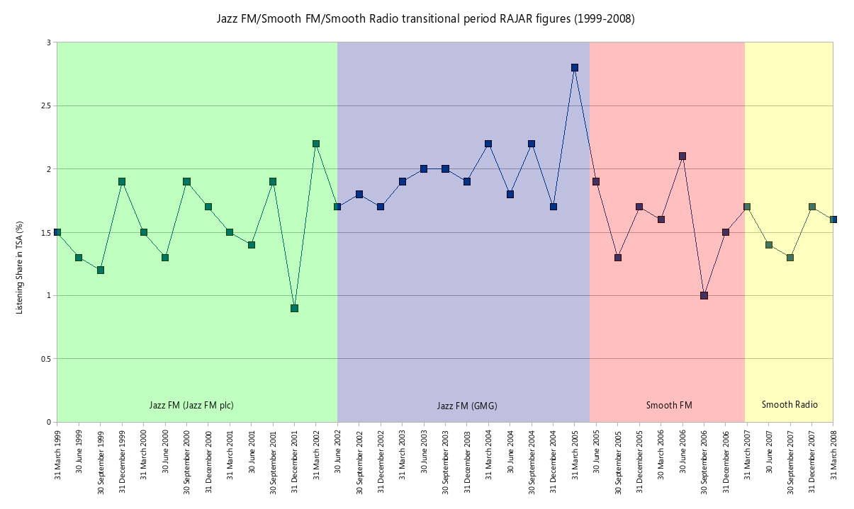 RAJAR figures for the transitional period of Jazz FM, Smooth FM and Smooth Radio.